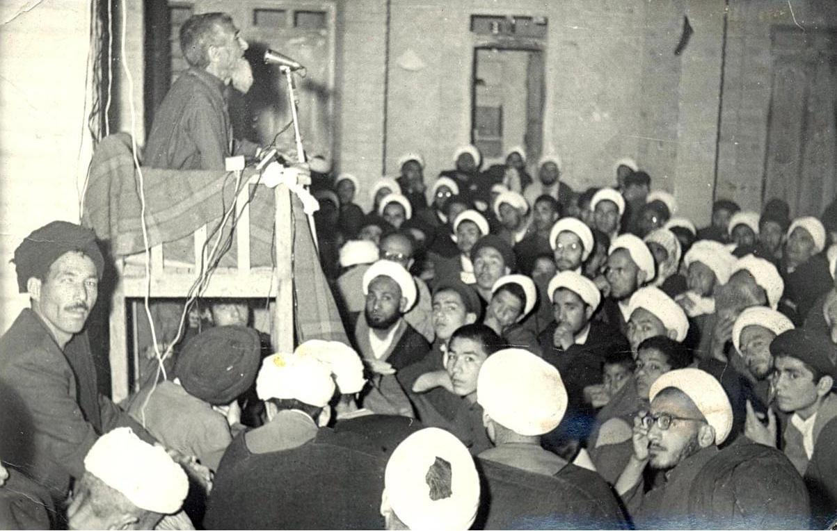 Muhammad Taqi Bohlool